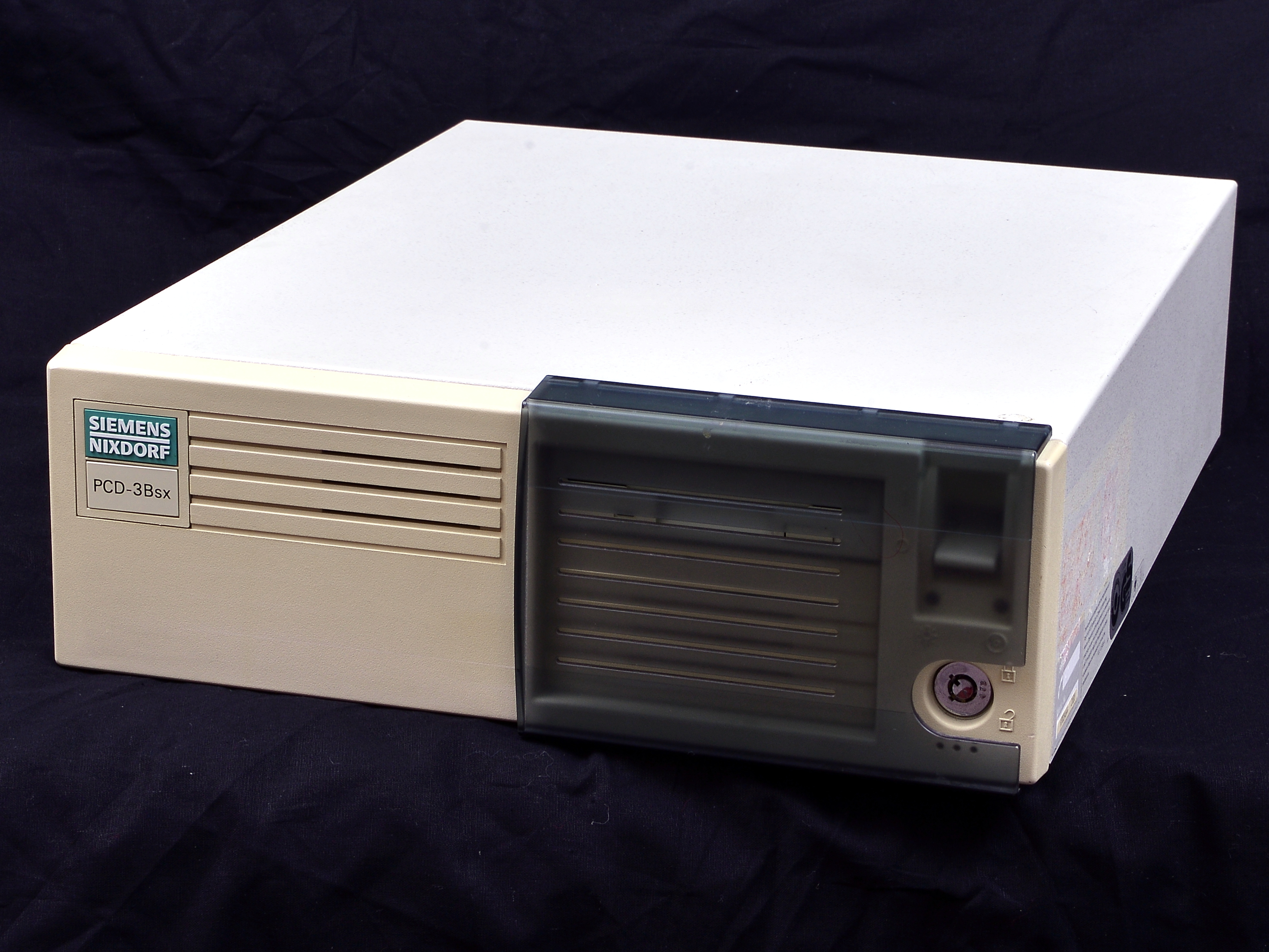 Siemens-Nixdorf Personal Computer